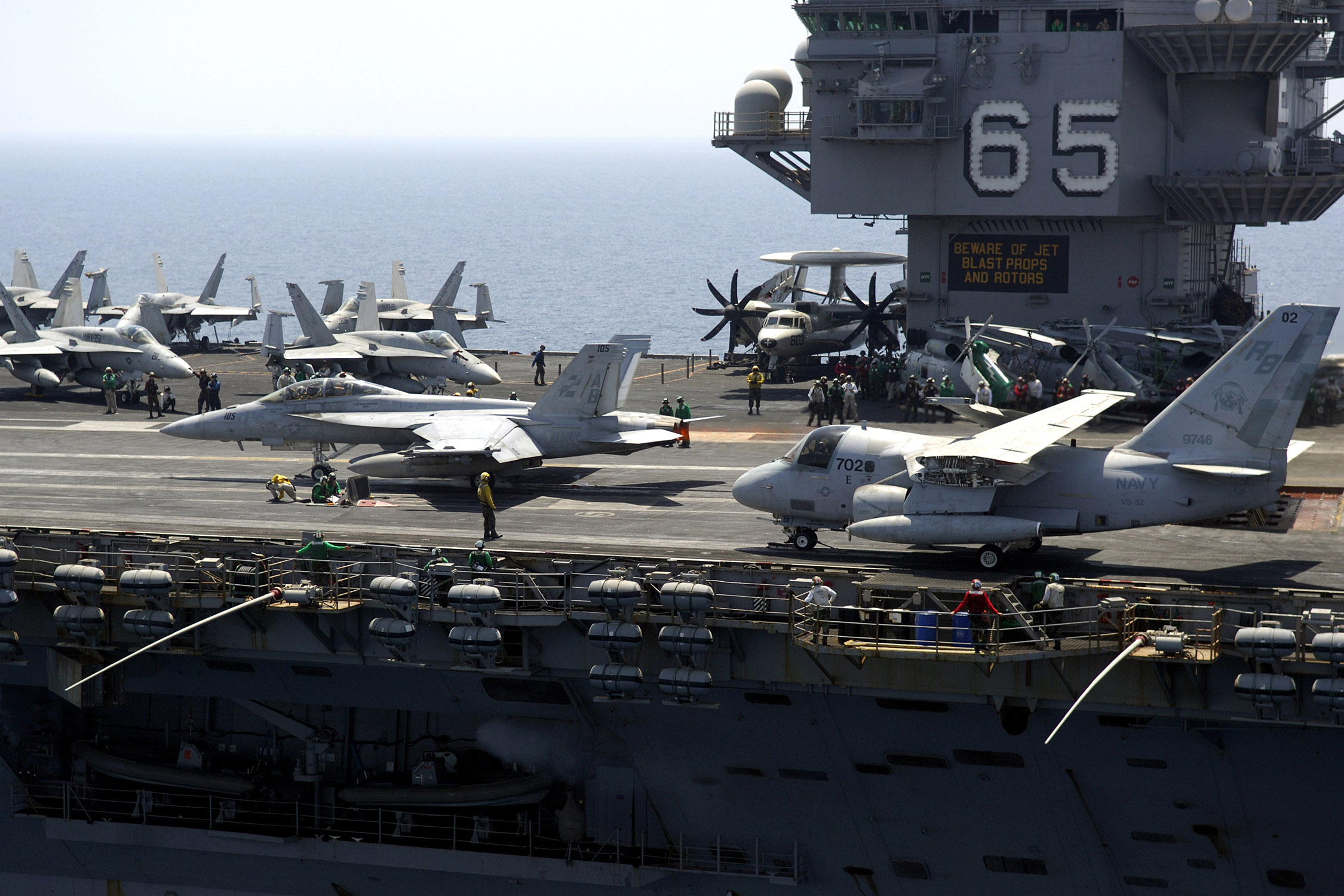 PERSIAN GULF (Aug. 17, 2007) - An F/A-18F Super Hornet attached to the "Checkmates" of Strike Fighter Squadron (VFA) 211 and an S-3B Viking, attached to the "Maulers" of Sea Control Squadron Three Two (VS-32) prepare for catapult assisted launches from the waist of the nuclear-powered aircraft carrier USS Enterprise (CVN 65). Enterprise and embarked Carrier Air Wing (CVW) 1 are currently underway on a scheduled six-month deployment. U.S Navy photo by Mass Communication Specialist Seaman Brandon Morris (RELEASED)